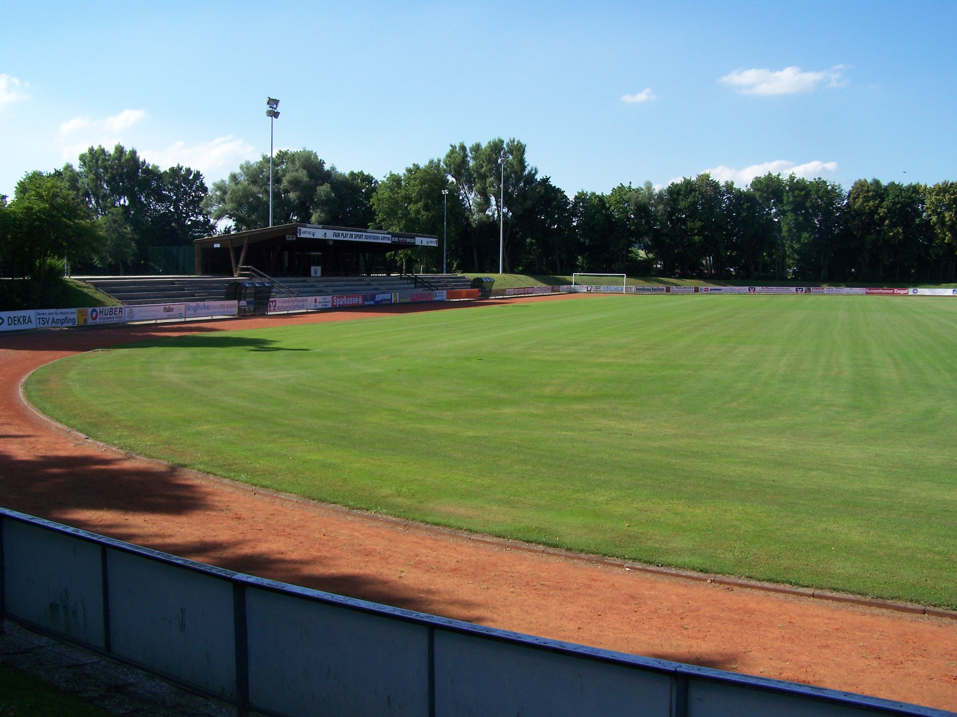 The Isenstadion in Ampfing.